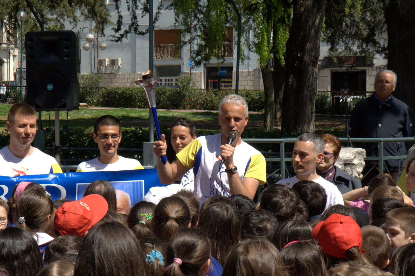 World Harmony Run (Peace Run) in Isernia, Italy 2010. Speaker in the picture with microphone Dipavajan Renner (approx. 1966 - 05.09.2019).